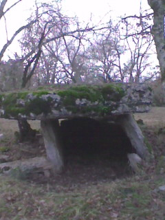 Front view of Dolmen of Gabaudet n°1 in Issendolus (Lot - France)